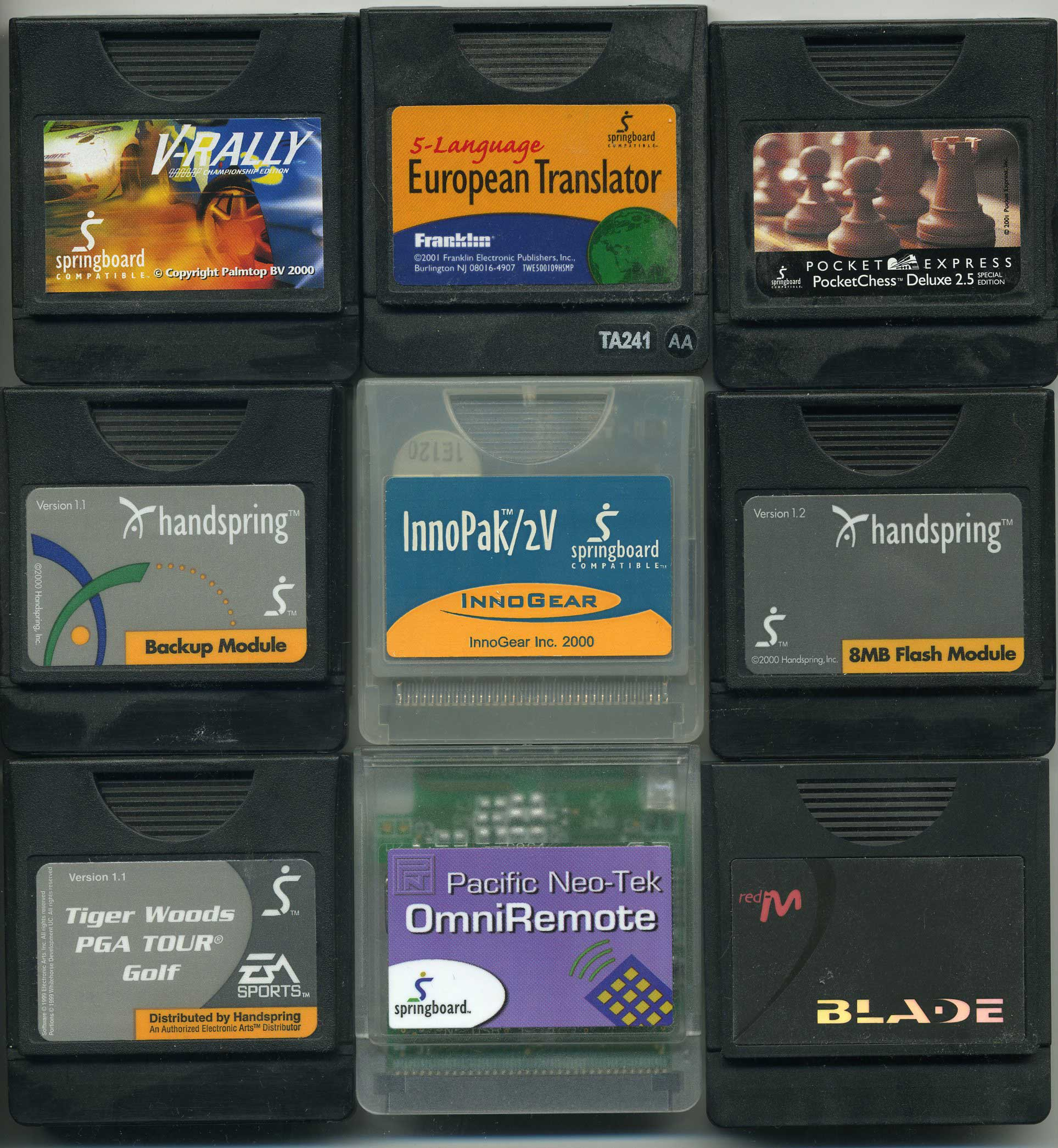 Expansion modules for the Springboard slot of Personal Digital Assistant Handspring Visor